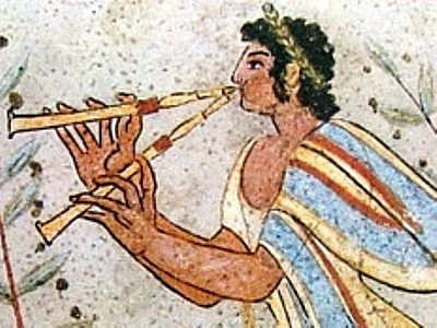 Etruscan Painting - Tomba dei Leopardi - Tarquinia - Italia